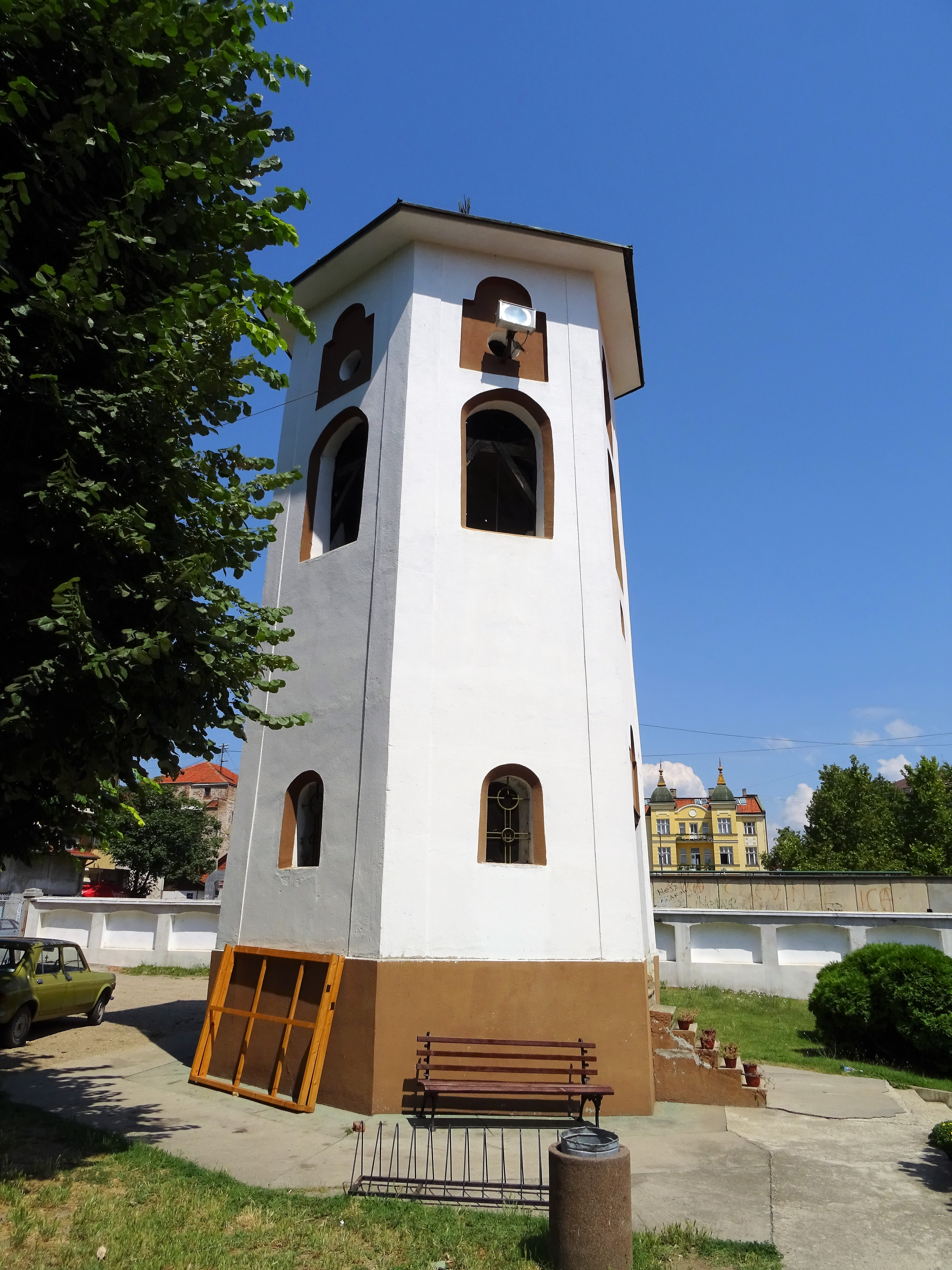 Old church Odžaklija - Bell tower